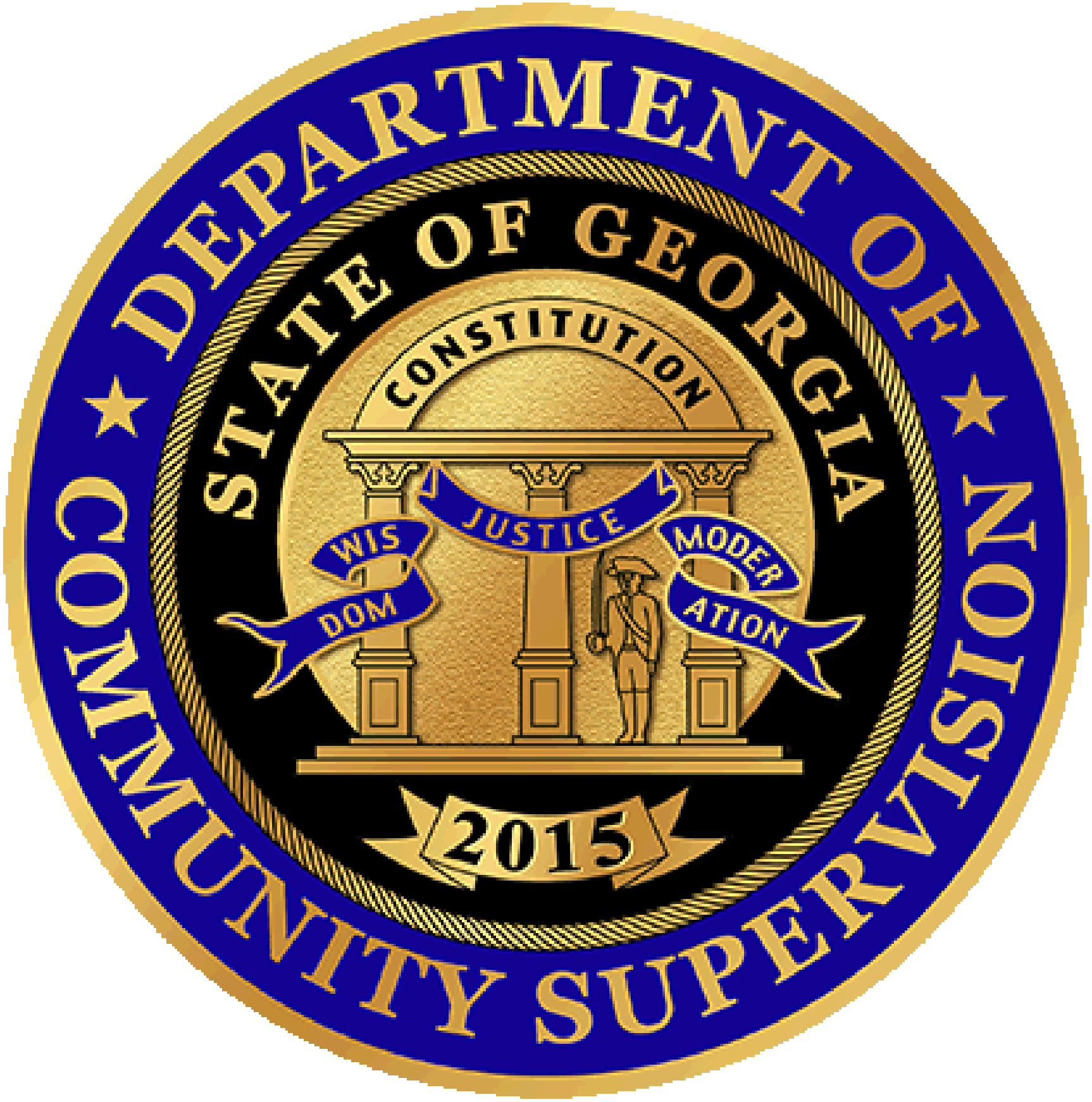 Georgia Department of Community Supervision Official Seal